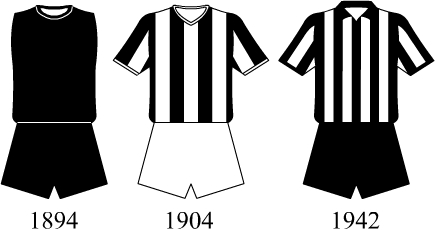 Botafogo's historical kits. Made by myself, Antonio Fragoso.